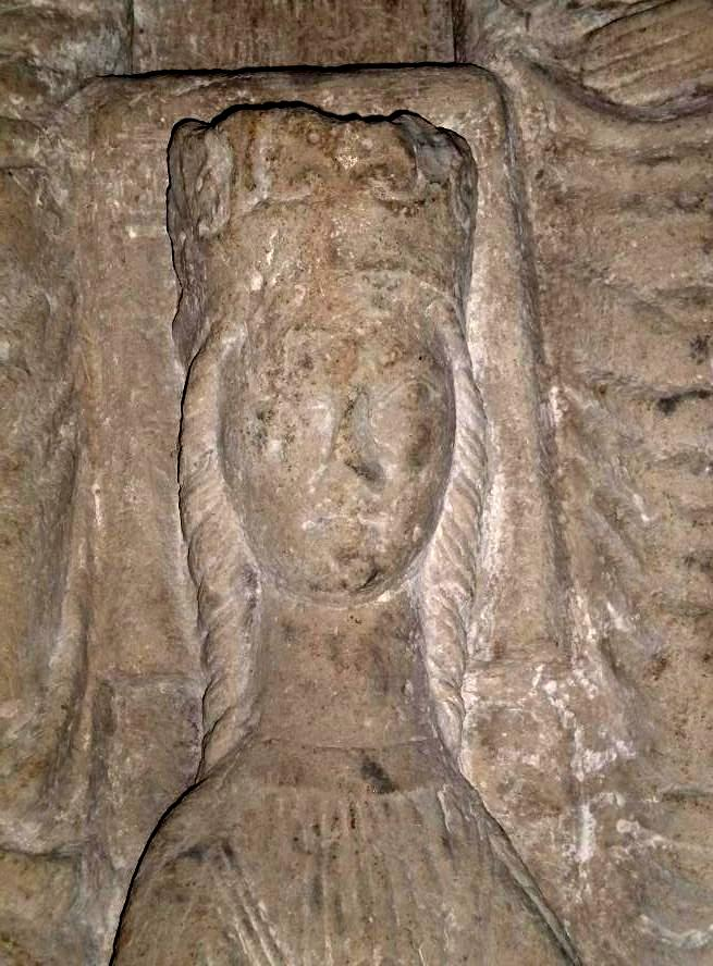 Dowager Queen Matilda of Denmark as depicted on her tomb, the family grave of Duke Birger of Sweden, at Varnhem ChurchPlace: Axvall, Sweden